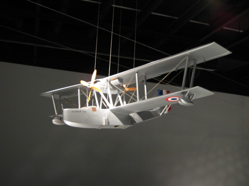 model of a Latham 47; picture taken at Zeppelinmuseum in Friedrichshafen/Germany